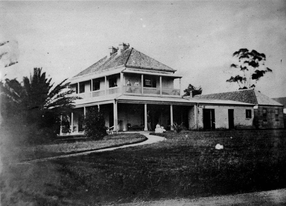 Side view of Milton House with the Manning family on the verandah, 1868 Milton House was erected in 1852 or 1853 for retired Queen Street chemist Ambrose Eldridge.This hip-roofed house is Colonial Georgian in style and plan, having a typical front doorway with segmented sidelights with arched fanlight, and a symmetrical arrangement of rooms radiating off a central hallway on each floor. The ground floor has wide, open verandahs on three sides. Two service rooms run across the rear of the house incorporating pavilion wings off the side verandahs. The walls are of brick, which is lime rendered and jointed to give the impression of stone. A three-roomed cellar is constructed of rough rubble walling, and entered by steps on the south side of the verandah. The roof is covered in shingles.